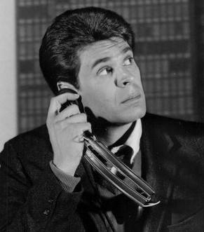 Photo of Joby Baker as Dave Lewis and Ronnie Schell as Larry Clarke-the morning team of Lewis and Clarke from the television program Good Morning World.